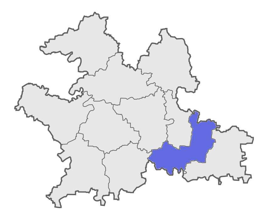 Locator map of South Solapur tehsil in Solapur district of Indian state of Maharashtra.